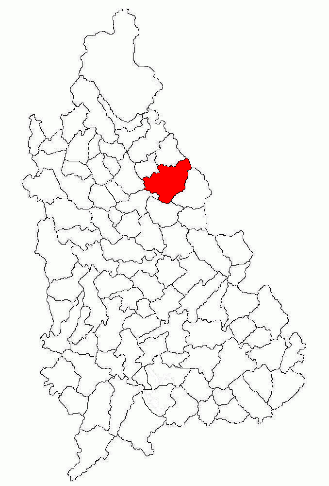 Locator map of Valea Lungă Commune in Dâmbovița County, Romania